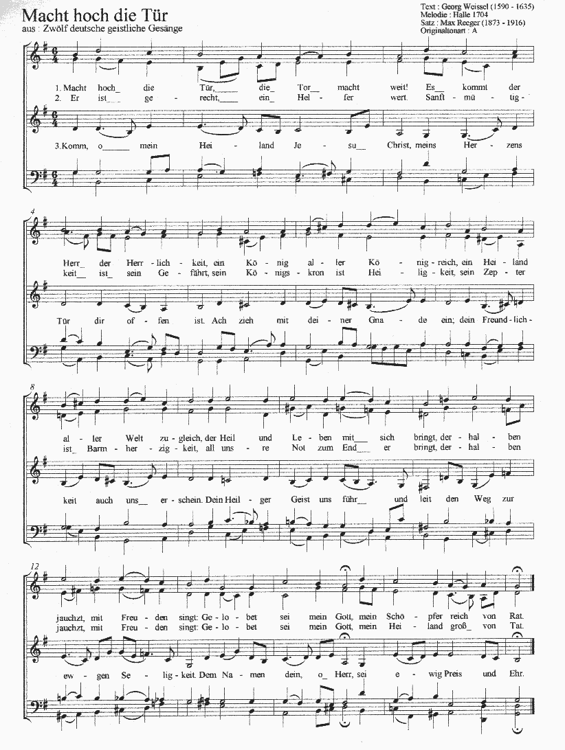 sheet music of Max Reger's setting of the Advent hymn Macht hoch die Tür